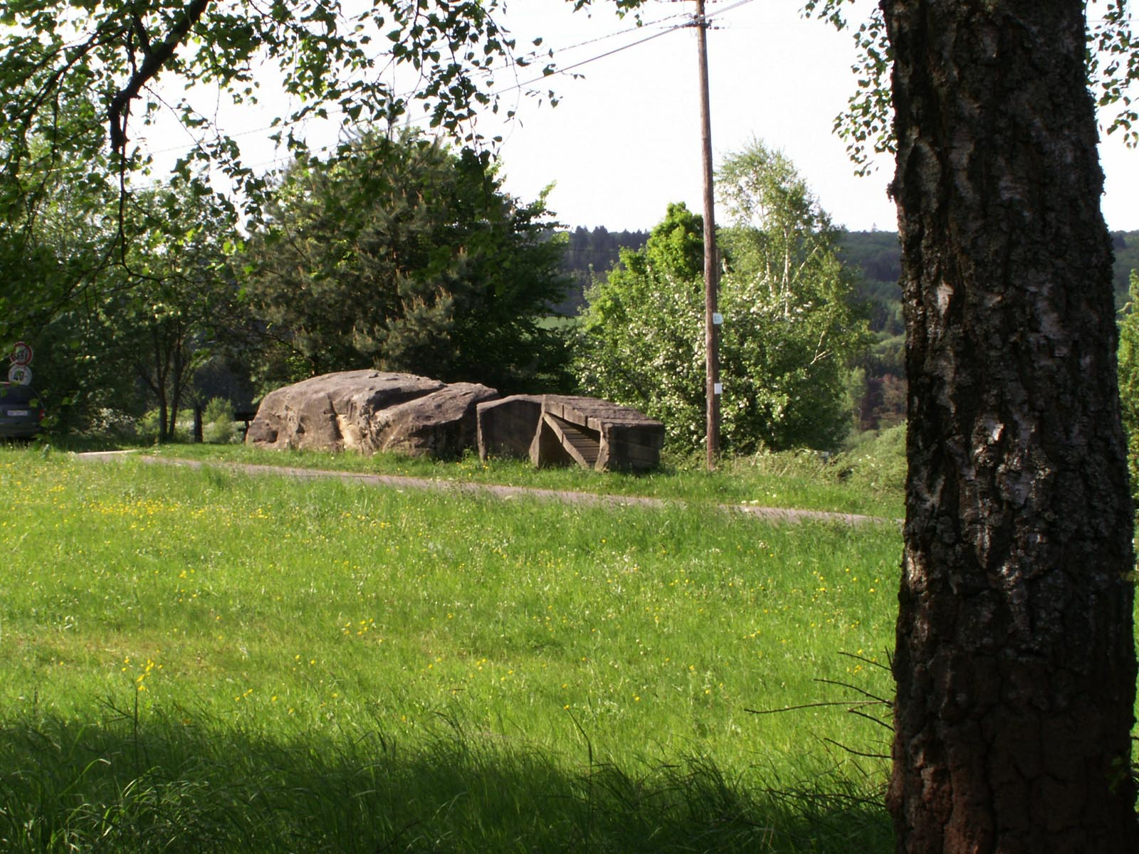 Street of Sculptures - Strasse der Skulpturen - Nikolaus Gerhart, o. T., 1986